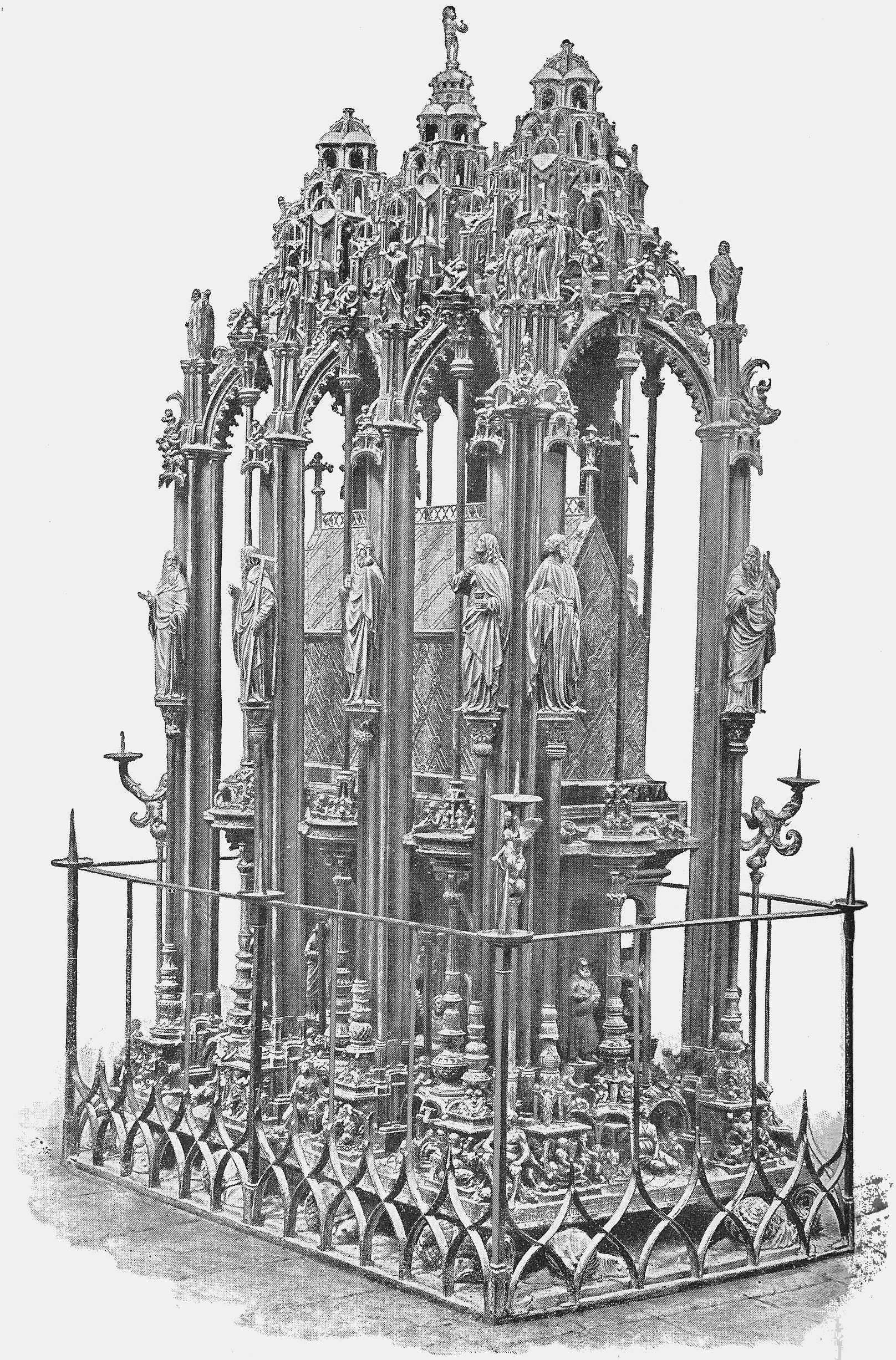 Monument of St Sebaldus From the caption: Monument of St. Sebaldus in the Sebalduskirche at Nuremburg, the masterpiece of Peter Vischer the elder and his sons, begun 1508, completed 1519, 1/25 of actual size. (Now Seemann's "Wandbilder".)